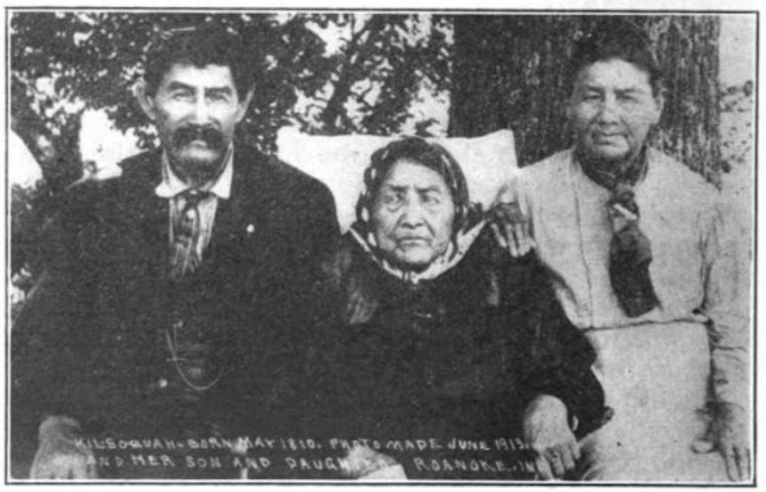 Photo of Kiilhsoohkwa in June 1913 with her son and her daughter. Originally printed in 1917 in "Little Turtle (Me-she-kin-no-quah): The Great Chief of the Miami Indian Nation; Being a Sketch of His Life, Together with that of William Wells and Some Noted Descendants," by Calvin M. Young.